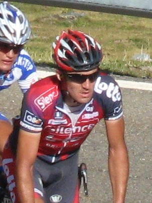 Yaroslav Popovych, 2008 Vuelta a España, 8th stage, Port de la Bonaigua, Spain.